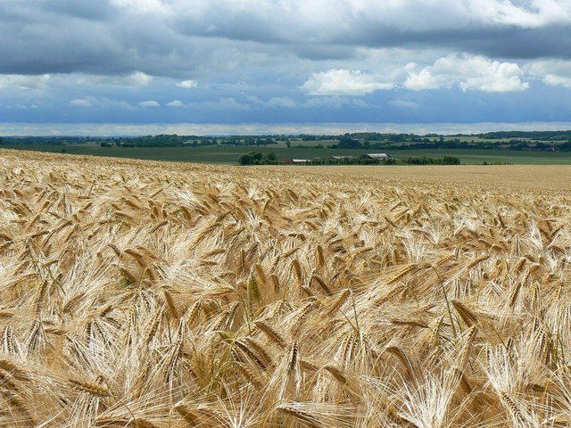 A field of barley, near Hackpen White Horse This view of the heavenly crop (used for beer and whisky as well as Horlicks) is to the west. The buildings in the middle distance are in the next square west.